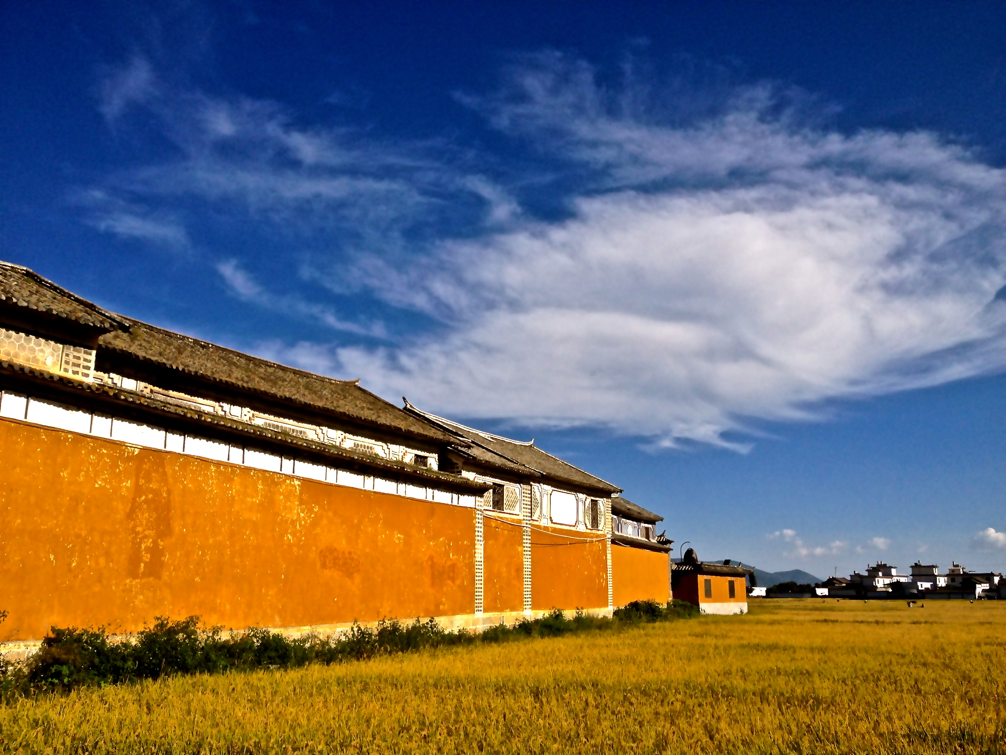 The Linden Centre's exterior wall.